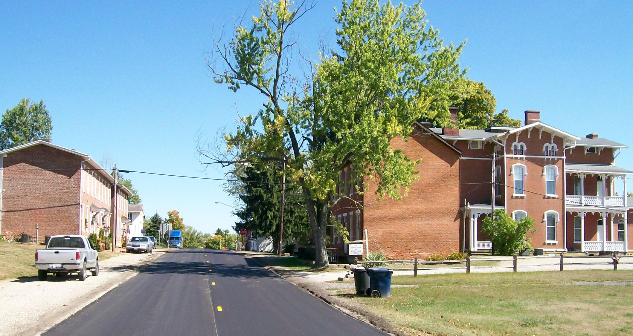 Historic District of Old Washington, Ohio